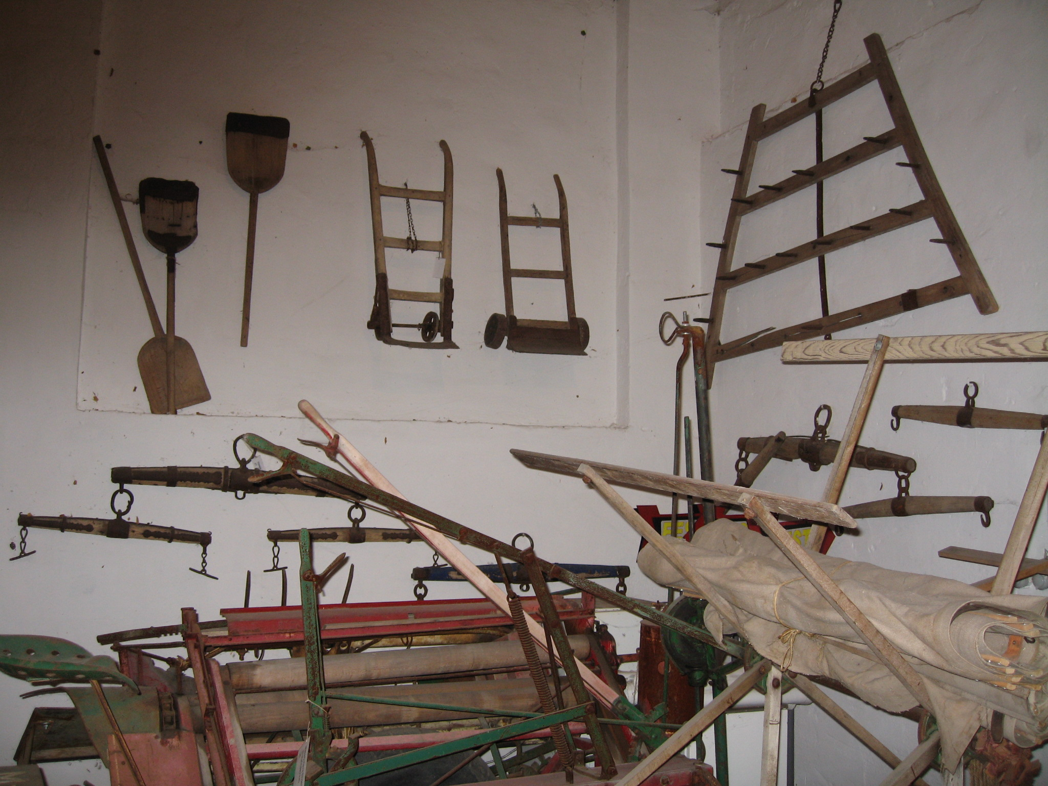 Exhibition objects in the Agricultural Museum of Wullersdorff in Lower Austria.